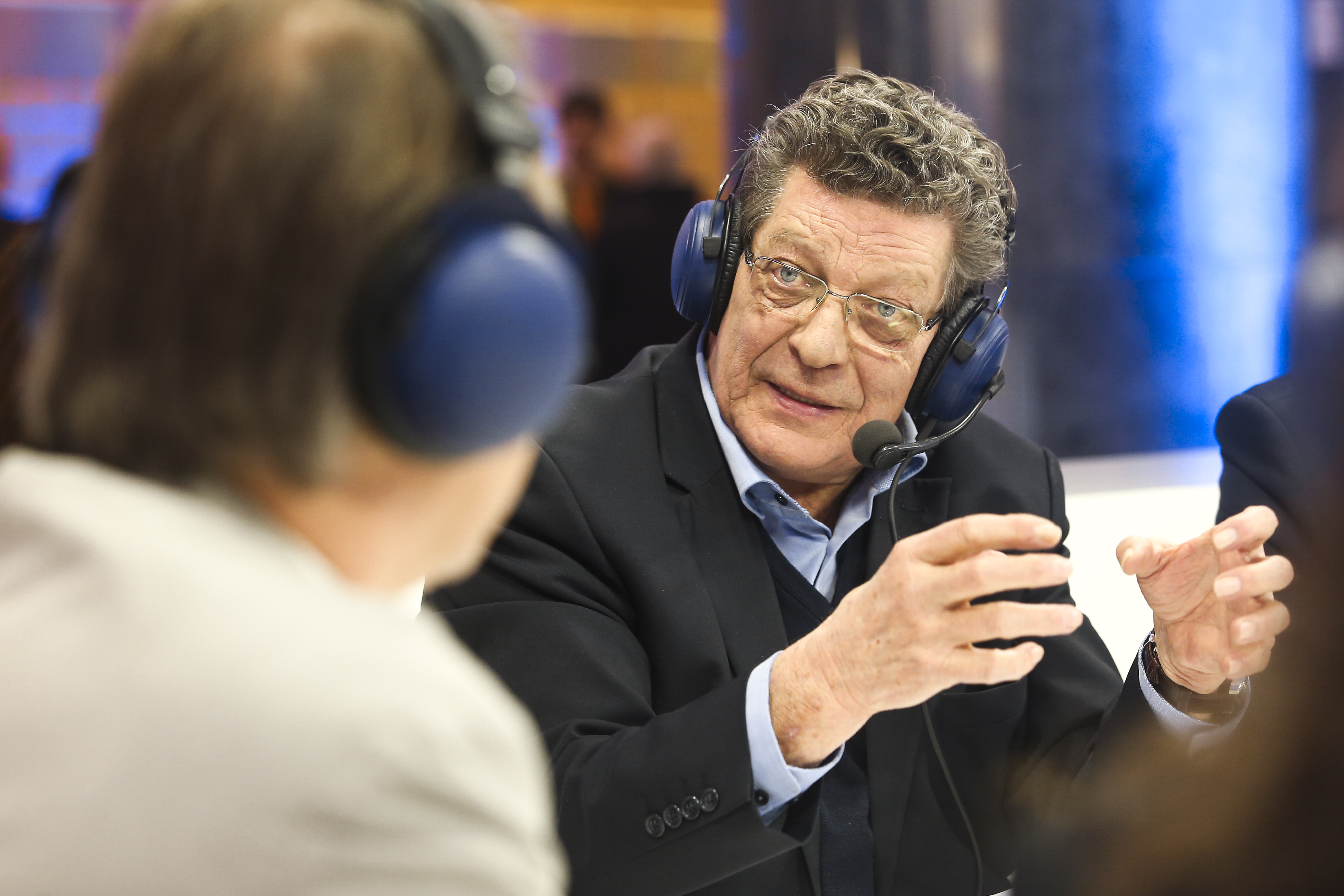 Euranet Plus, the leading radio network for EU news, hosted a Citizens’ Corner debate on "new rules for the freedom of movement" in the EU at the European Parliament in Brussels on February 24. The debate was jointly produced by Euranet Plus and RTBF, the Belgian member of the Euranet Plus network. The bilingual debate was moderated by journalist Africa Gordillo of RTBF (in French) and Brian Maguire of the Euranet Plus News Agency in Brussels (in English). The debate also featured students of the Euranet Plus campus radio network from Romania (UBB Radio, Cluj-Napoca) and Spain (Universidade de Vigo). The French part of the debate featured the following guests: - Hugues Bayet, MEP, Belgium, Group of the Progressive Alliance of Socialists and Democrats, www - Gérard Deprez, MEP, Belgium, Group of the Alliance of Liberals and Democrats for Europe, www, @gerardeprez - Philippe Lamberts, MEP, Belgium, Group of the Greens/European Free Alliance, www, @ph_lamberts - Luc Leboeuf, specialist in international and European rights at UCL, Université catholique de Louvain/ Catholic University of Louvain) Get all the details as well as audio and video recordings on our dedicated web page at